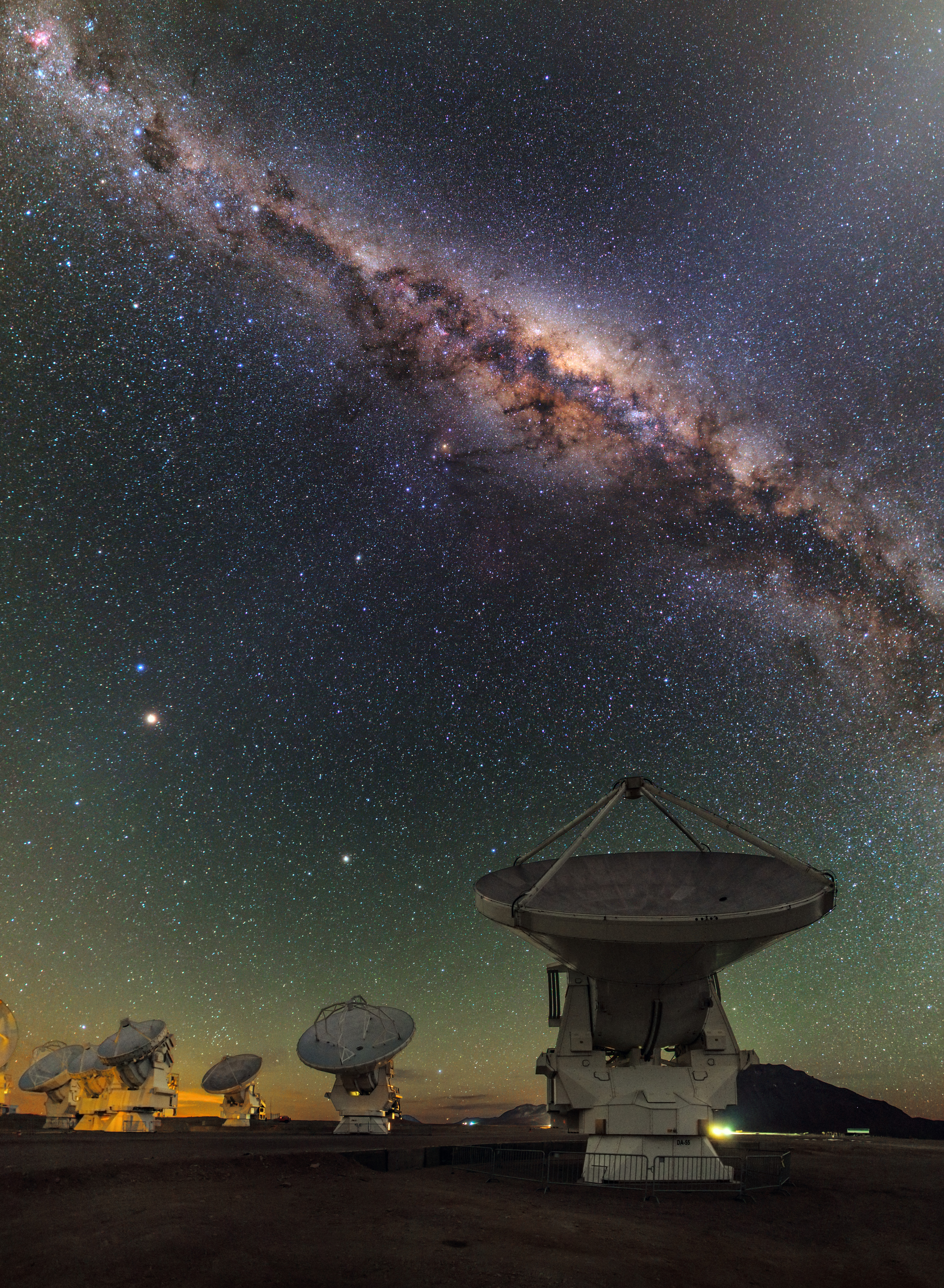 This view shows several of the ALMA antennas and the central regions of the Milky Way above. In this wide field view, the zodiacal light is seen upper right and at lower left Mars is seen. Saturn is a bit higher in the sky towards the centre of the image. The image was taken during the ESO Ultra HD (UHD) Expedition.